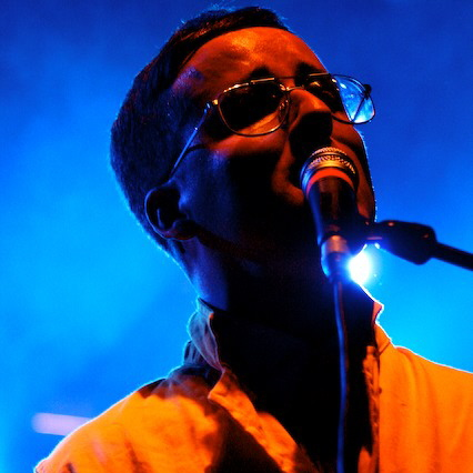 This image depicts Alexis Taylor, lead vocalist of Hot Chip.